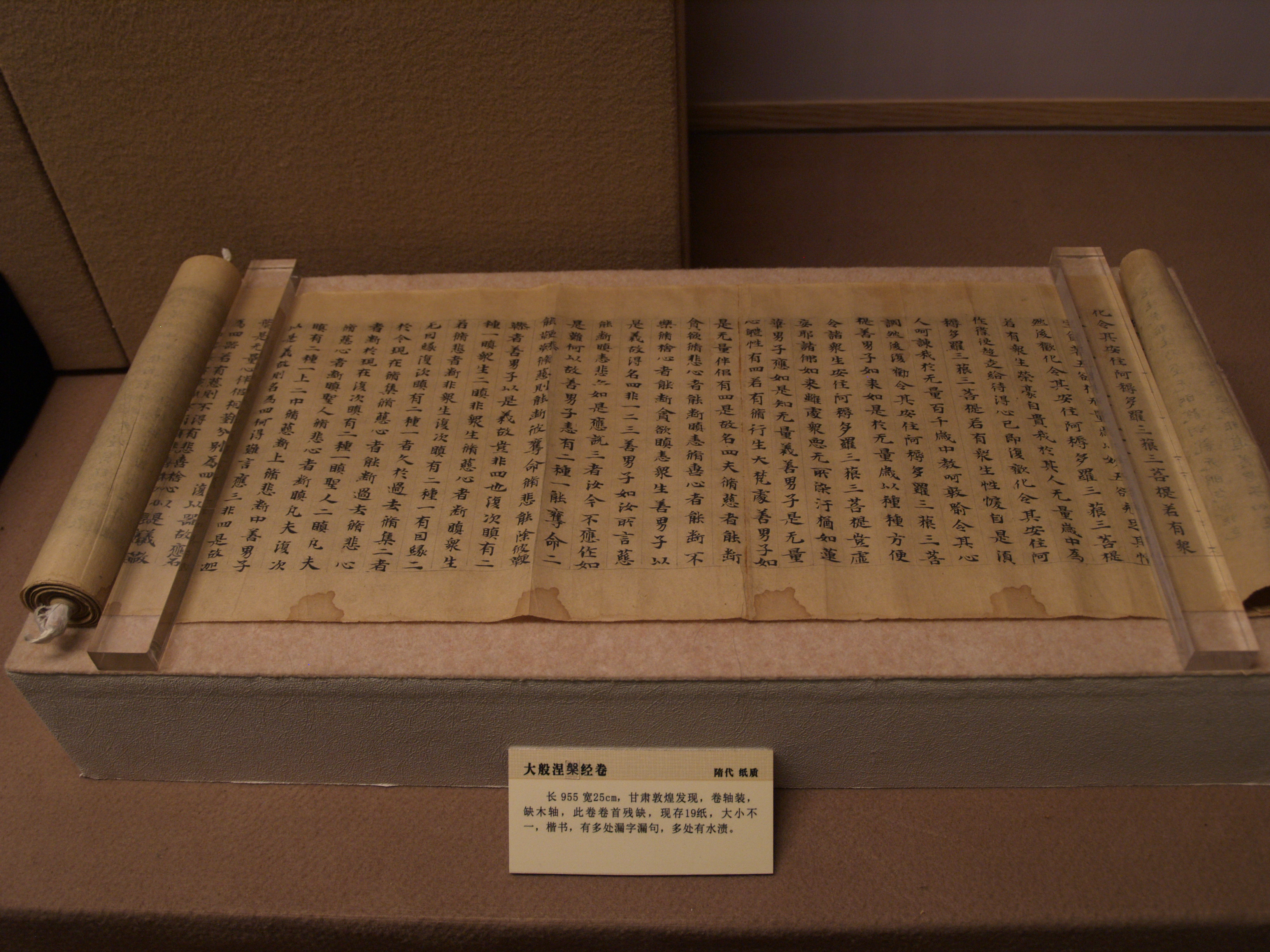 Sui dynasty Mahayana Mahaparinirvana Sutra housed in the Museum of the Mausoleum of the Nanyue King